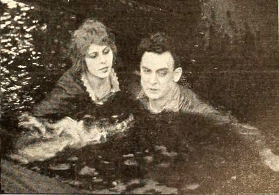 Still from an ad for the American film serial Smashing Barriers (1919) with William Duncan and Edith Johnson, page 1789 of the August 30, 1919 Motion Picture News.